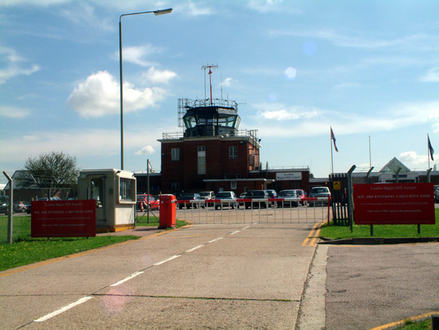 London Biggin Hill Airport passenger terminal. For more information see the Wikipedia article London Biggin Hill Airport.